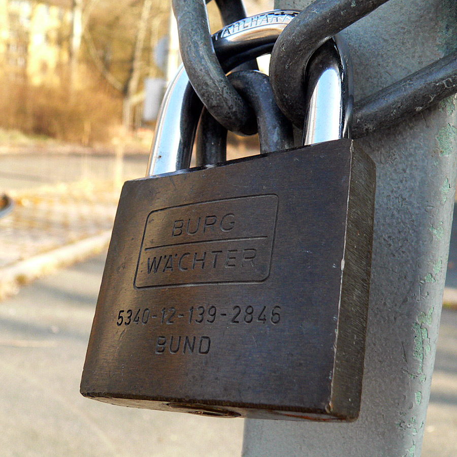 A Padlock, property of the German Military, the Bundeswehr.